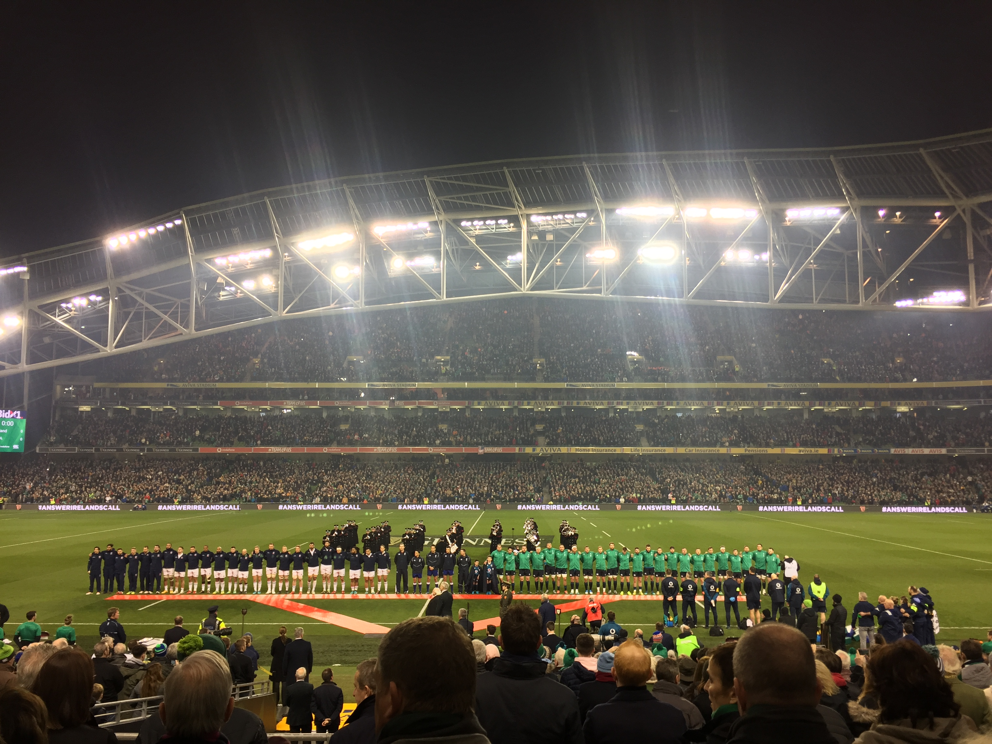 Aviva stadium Ireland vs USA 24/11/2018